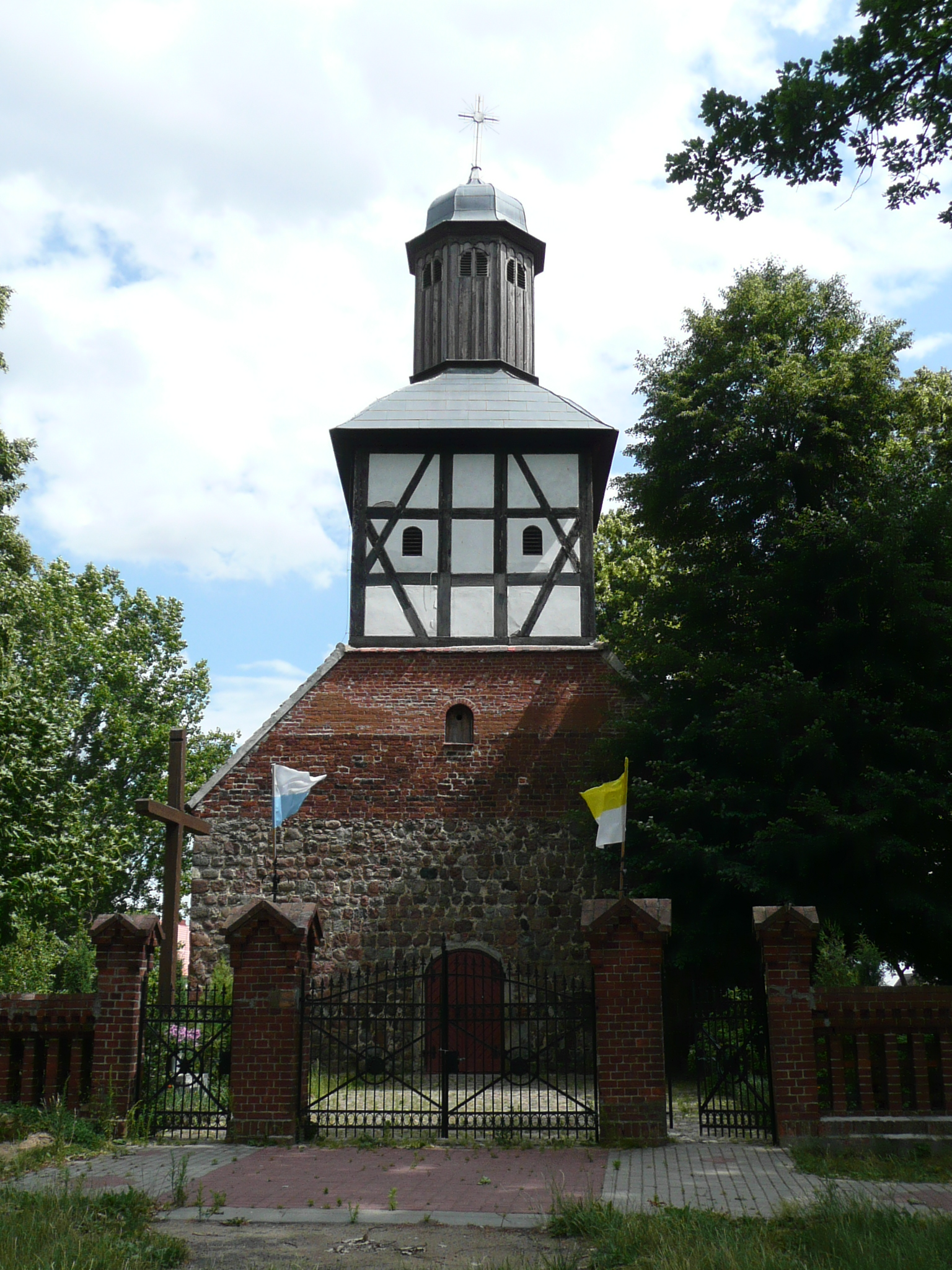 The church in Wojcieszyce, Poland.